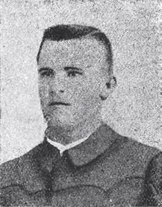 Portrait of IMARO voevoda Ivan Gyurlukov